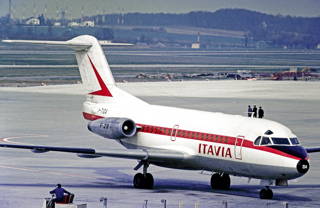 Fokker F.28 1000 I-TIDA of Itavia at Geneva Cointrin Airport in 1974